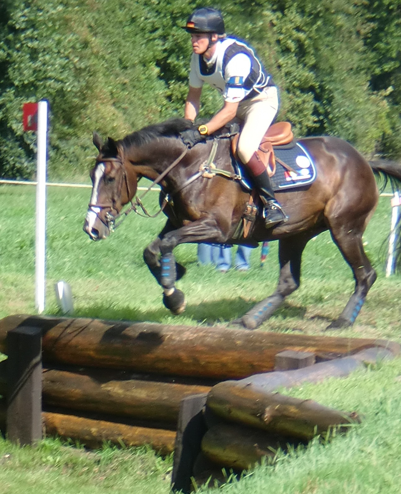 Frank Ostholt and La Fair, fence 5b "Hohlweg" (Sunken road), German Eventing Championships 2010, CIC 3*-W Schenefeld 2010